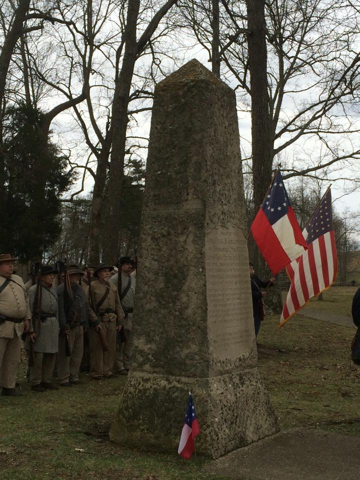 Zollicoffer Monument and memorial ceremony at Mill Springs Battlefield